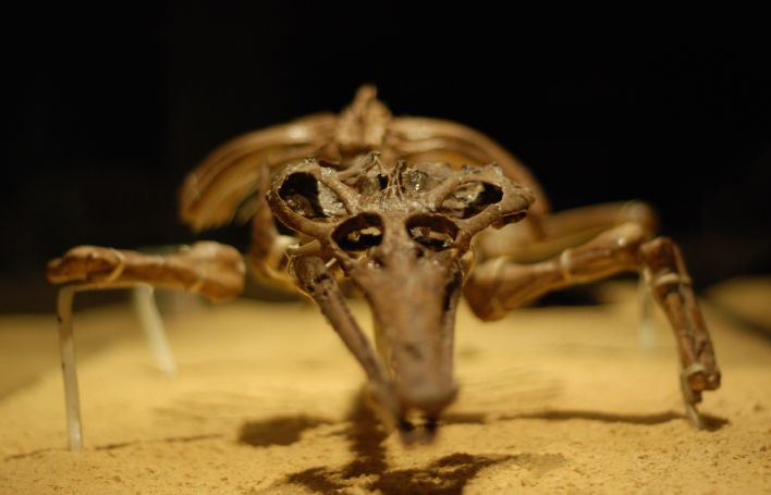 Tchoiria klauseni holotype fossil specimen on temporary exhibit in Spain